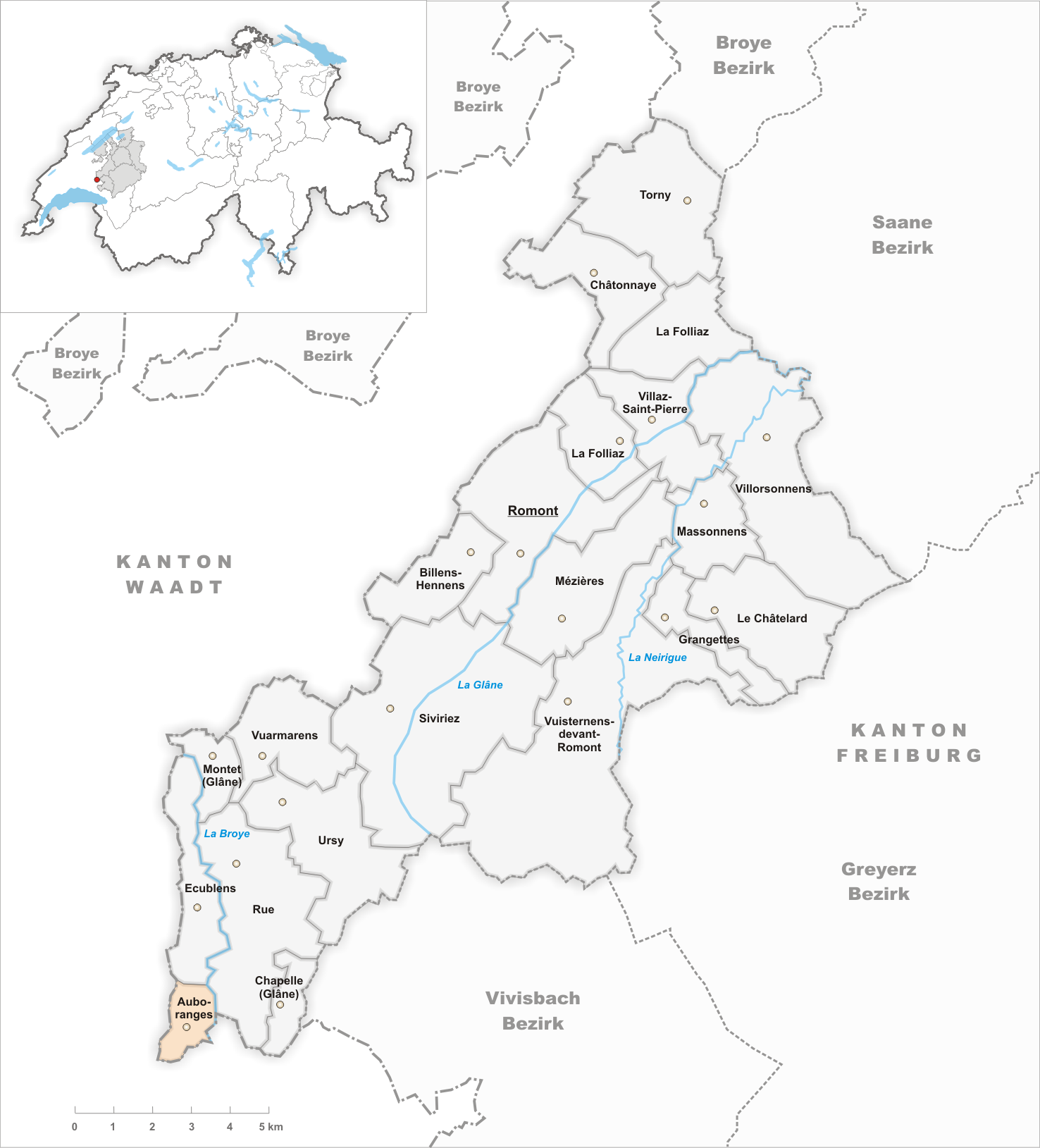 Municipality Auboranges